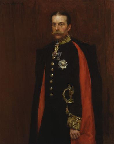 Robert Offley Ashburton Crewe-Milnes, 1st Marquess of Crewe, by Walter Frederick Osborne (1859-1903). Oil on canvas (1257 mm x 1003 mm)